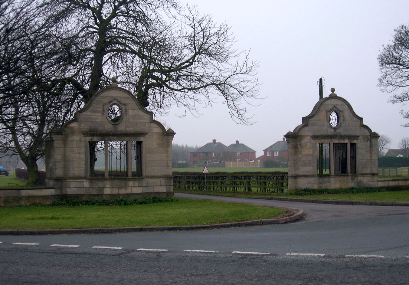 Gateway to Cowick Hall that lies between East Cowick and West Cowick, East Riding of Yorkshire, England.